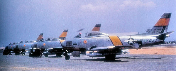 F-86s of the 4th Fighter Wing - Korea.